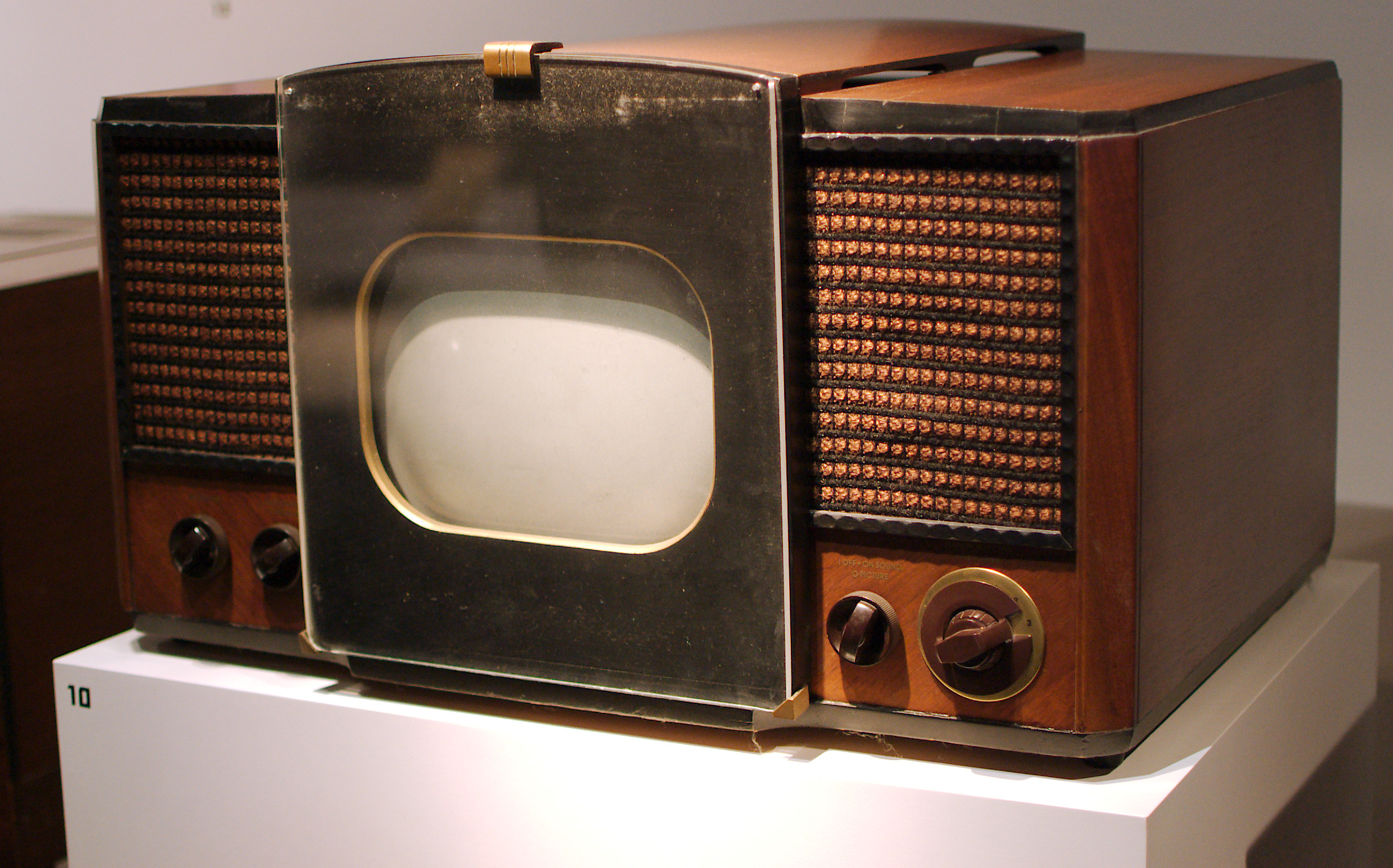 RCA Model 630-TS television set seen in a museum. Its caption indicates it was the first mass produced TV set and was sold in 1946 and 1947.